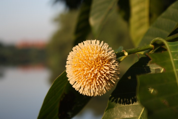 Neolamarckia Cadamba flower in Jahangirnagar University, Bangladesh